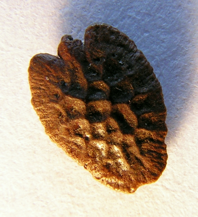 The seed of Passiflora quadrangularis. Length of the seed is appr. 7 mm.